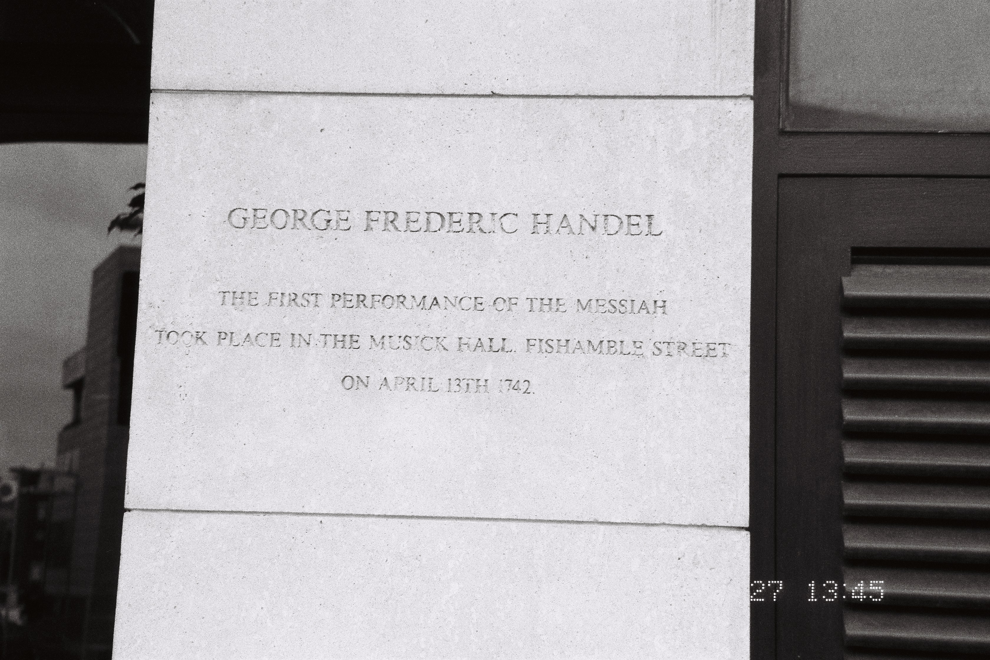 A table on George Frederic Handel Hotel in Fishamble Street, Dublin.